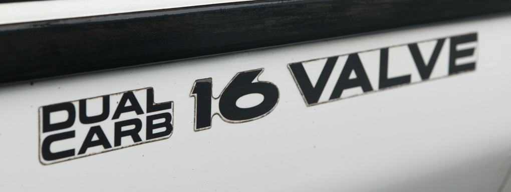 Decal of Honda Civic 25XT (EF)